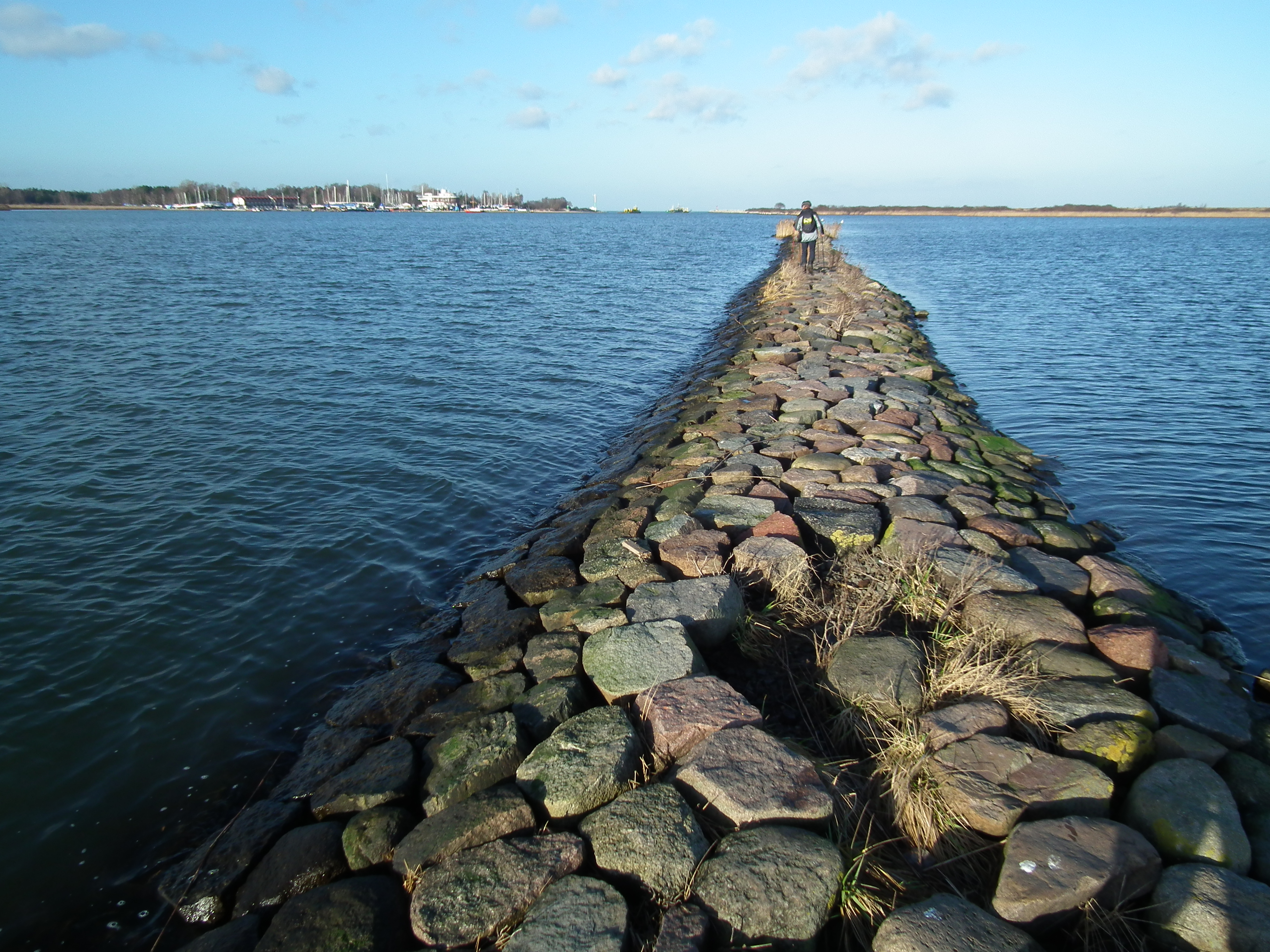 Grobla, Bird's paradise, Western Hills, Górki Zachodnie, Poland